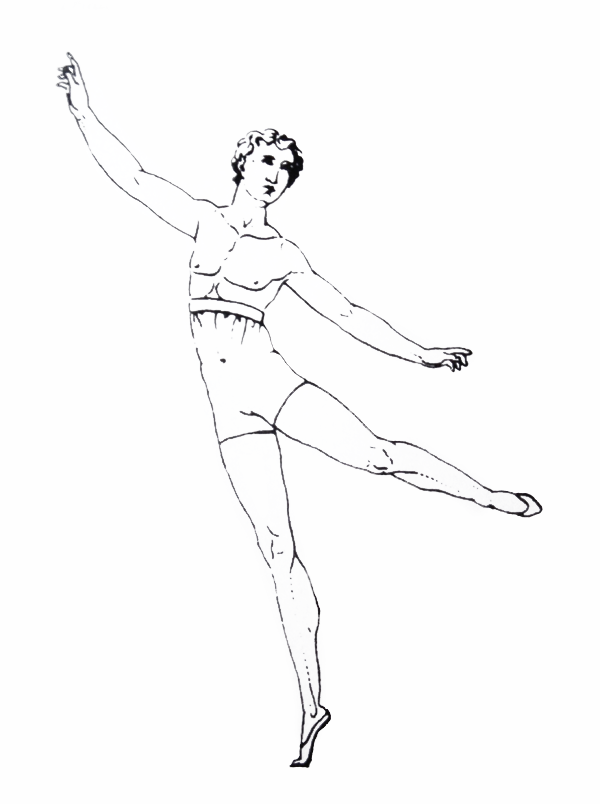 Arabesque - Carlo Blasis - Fig. 1 pl .X - Traité élémentaire, théorique et pratique de l'Art de la Danse, 1820